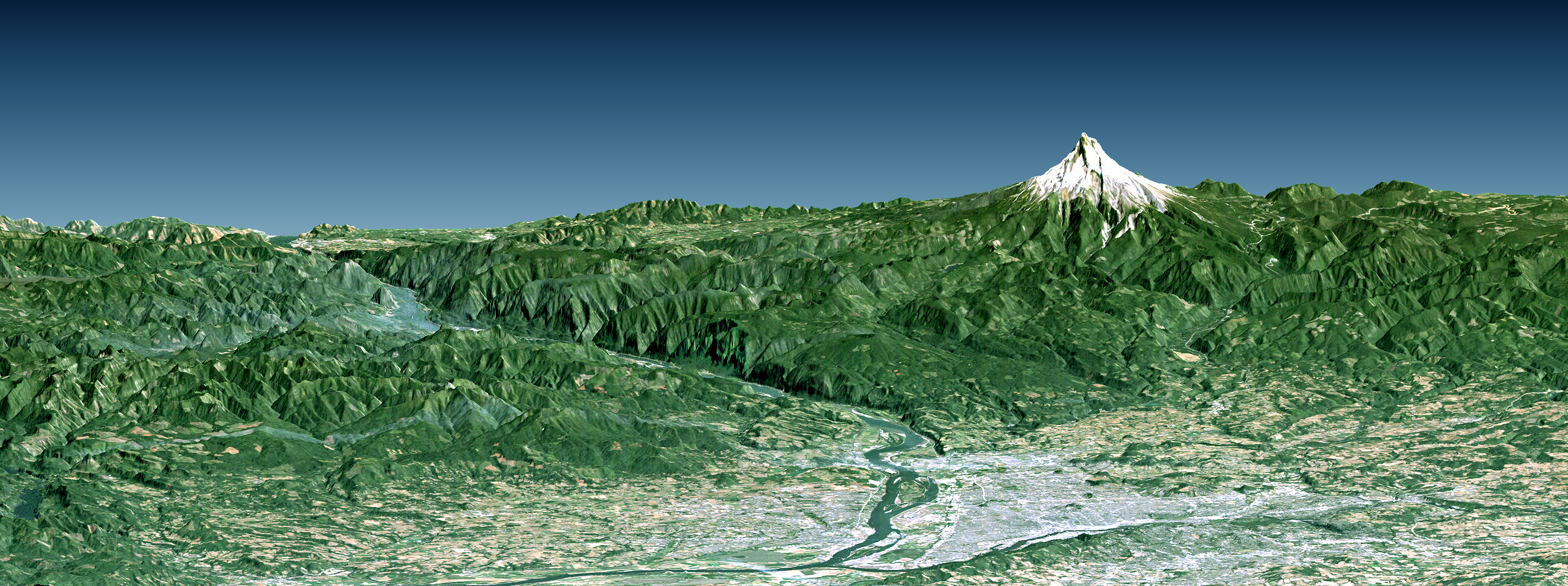 Portland, the largest city in Oregon, is located on the Columbia River at the northern end of the Willamette Valley. On clear days, Mount Hood highlights the Cascade Mountains backdrop to the east. The Columbia is the largest river in the American Northwest and is navigable up to and well beyond Portland. It is also the only river to fully cross the Cascade Range, and has carved the Columbia River Gorge, which is seen in the left-central part of this view. A series of dams along the river, at topographically favorable sites, provide substantial hydroelectric power to the region. This perspective view was generated using topographic data from the Shuttle Radar Topography Mission (SRTM), a Landsat satellite image, and a false sky. Topographic expression is vertically exaggerated two times. Landsat has been providing visible and infrared views of the Earth since 1972. SRTM elevation data substantially help in analyzing Landsat images by revealing the third dimension of Earth’s surface, topographic height. The Landsat archive is managed by the U.S. Geological Survey’s EROS Data Center (USGS EDC). Size: View width 88 kilometers (49 miles), View distance 106 kilometers (66 miles) Location: 45.5 degrees North latitude, 122.5 degrees West longitude Orientation: View East-Southeast, 10 degrees below horizontal, 2 times vertical exaggeration Image Data: Landsat Bands 3, 2, 1 as red, green, blue, respectively Date Acquired: February 2000 (SRTM), August 10, 1992 (Landsat)